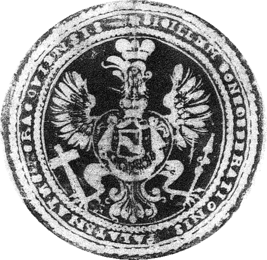 Seal of the Confederation of the Kraków Voivodeship in the Bar Confederation in 1769